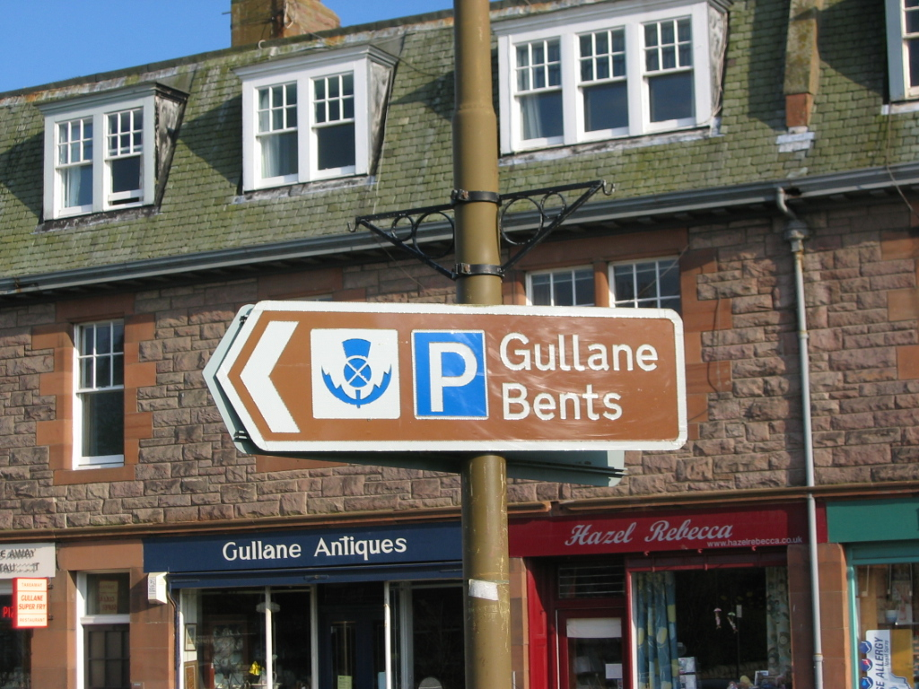 Gullane, East Lothian, Scotland